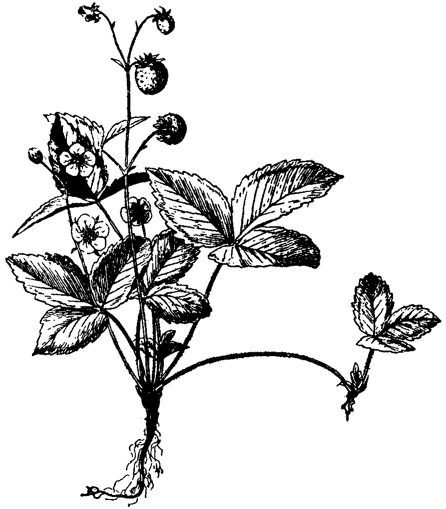 Wild Strawberry (Fragaria vesca), ⅔ natural size in the original format. It is in flower and fruit, and bearing a runner.